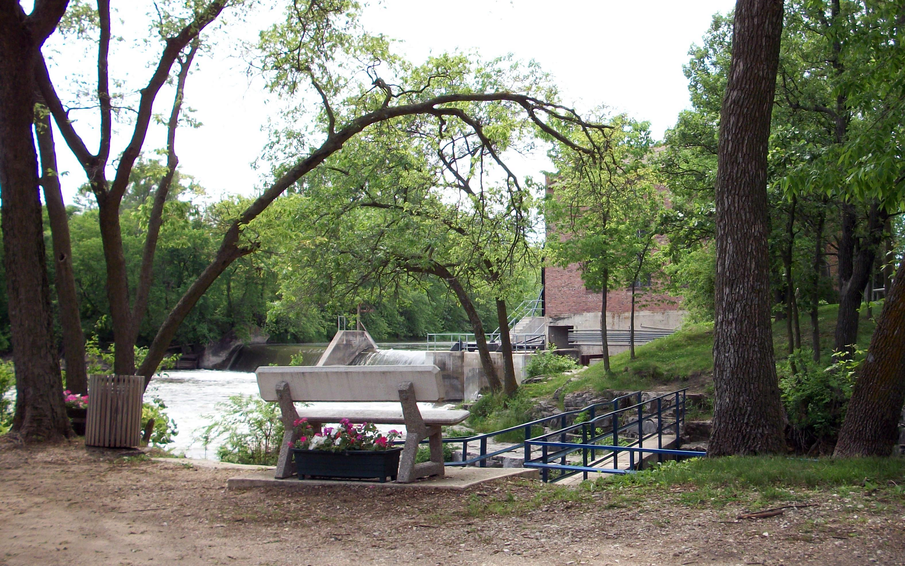 Rutland Dam as seen from Rose Mill Park, Rutland, Iowa, USA